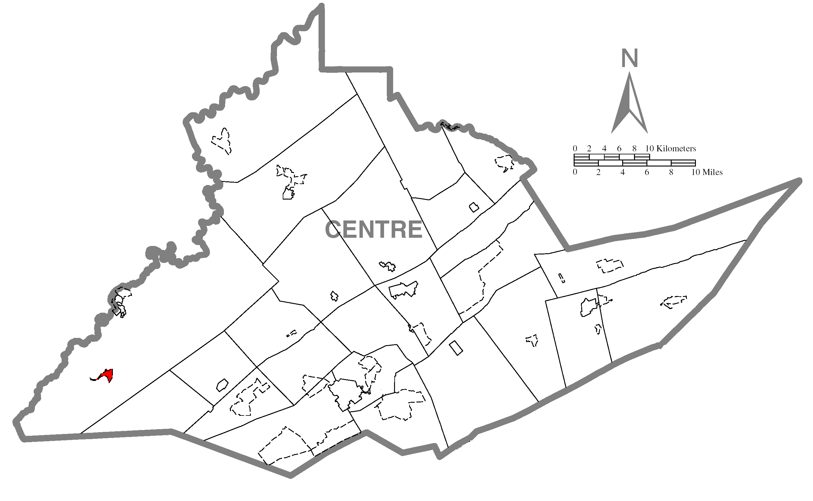 A map of Centre County showing Sandy Ridge, Pennsylvania (alternate) highlighted on the map.